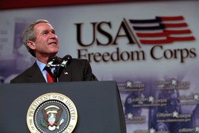 George W. Bush speaking in front of a USA Freedom Corps display. Optimized and incidentally cropped by the uploader from Retrieved 23 April 2005 via